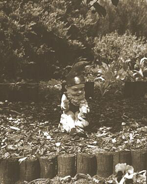 Modern Calotype by Alf B. Meier. Garden Gnome, about 8x10"exposed about 5 min at f/11, 1995, printed on salted paper. Image by Alf B. Meier (1995)